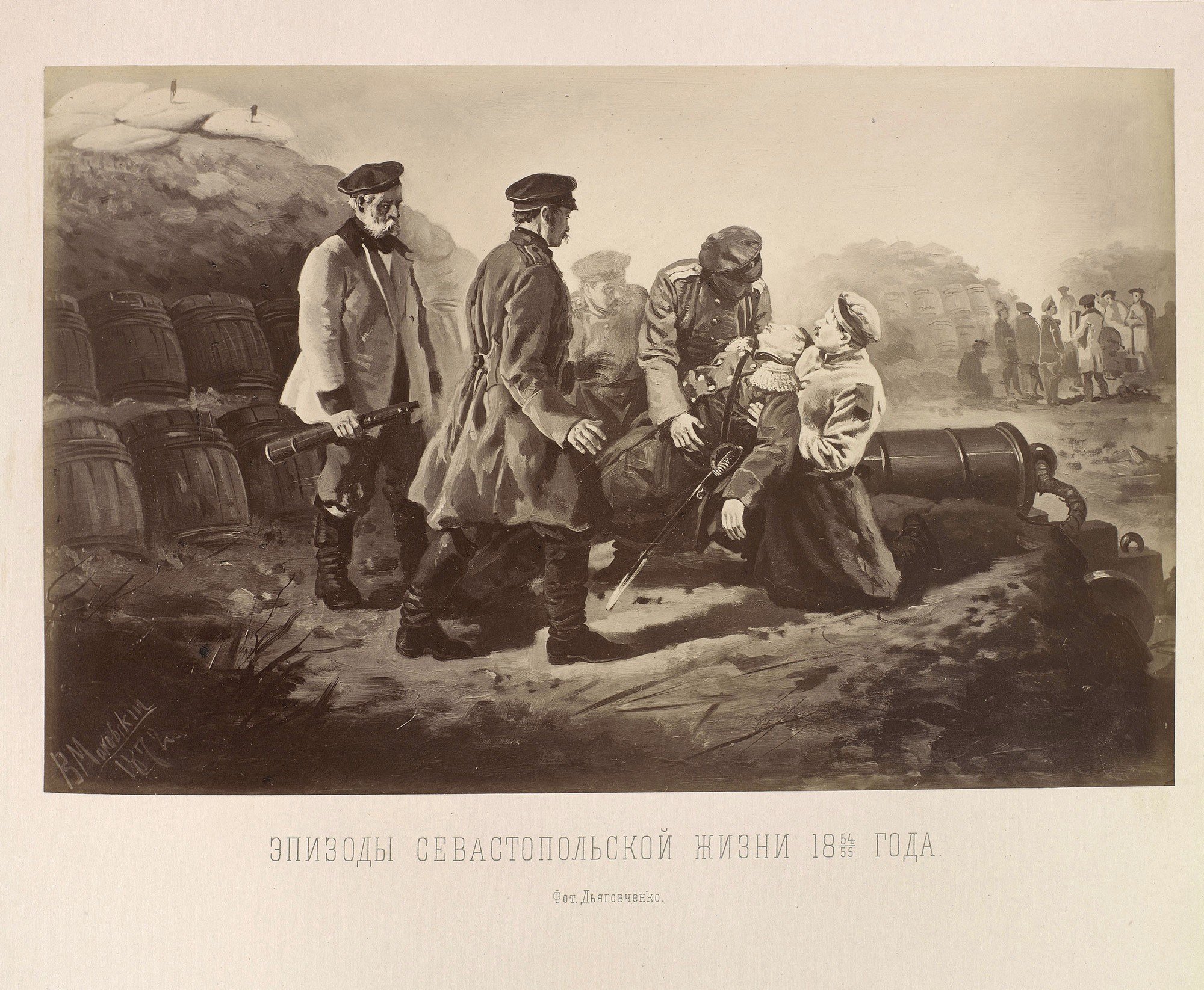 Death of admiral Nakhimov during the siege of Sevastopol (1854-1855) Part of an album of paintings showing scenes from the siege of Sevastopol 1854-55 and exposed at the 1872 Moscow Polytechnic Exhibition